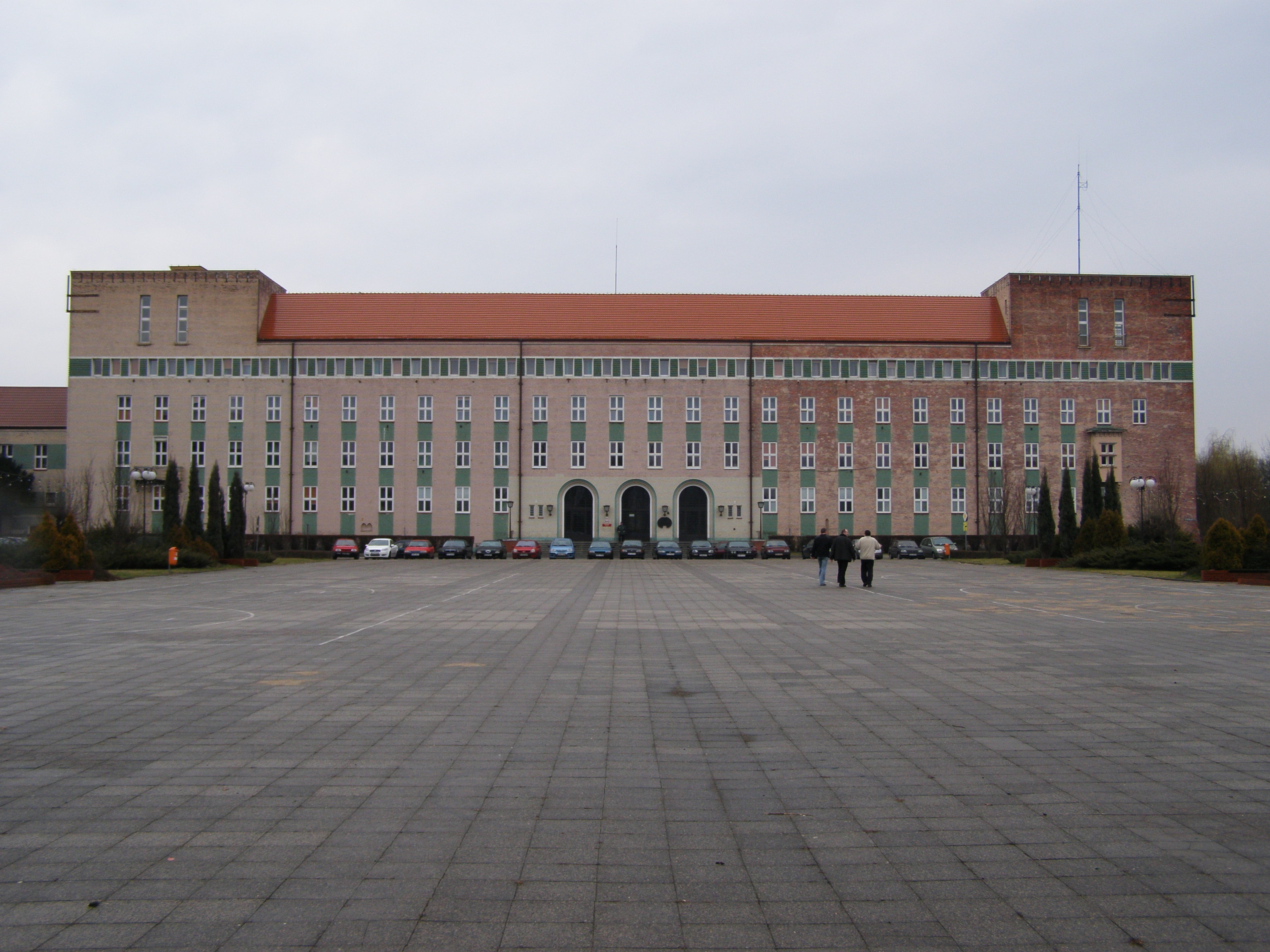 Former administrative seat of the Prussian Province Frontier March of Posen-West Prussia, now the Police School in Piła